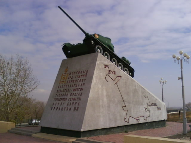 Contribution of the Mongolian people to defeat of fascism in 1941-1945 The image shows the monument to the Soviet "Revolutionary Mongolia" tank brigade, a brigade financed by the Mongolian people. The monument is now located at the foot of the Zaisan hill, having been moved there in 2003 from an intersection further north. The cities on the map to the left of the tank are Moscow (in 1943) and Berlin (in 1945). The inscription before the front of the tank reads "The Revolutionary Mongolia tank brigade, which was founded with the contributions from the Mongolian people, took part in the war against Hitler Germany".